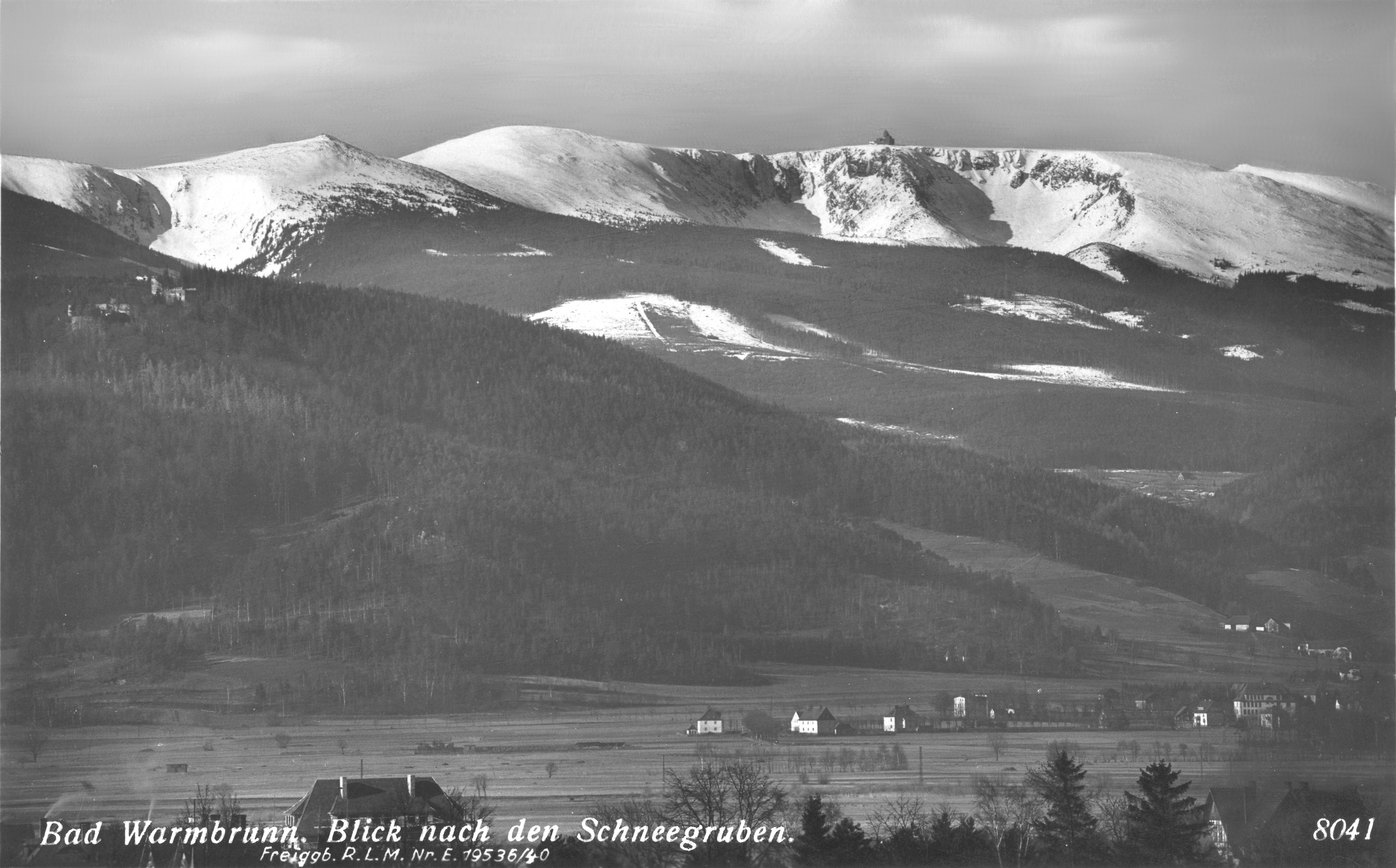 Sniezne Kotly (germ. Schneegruben), Karkonosze Mountains, Germany now Poland.